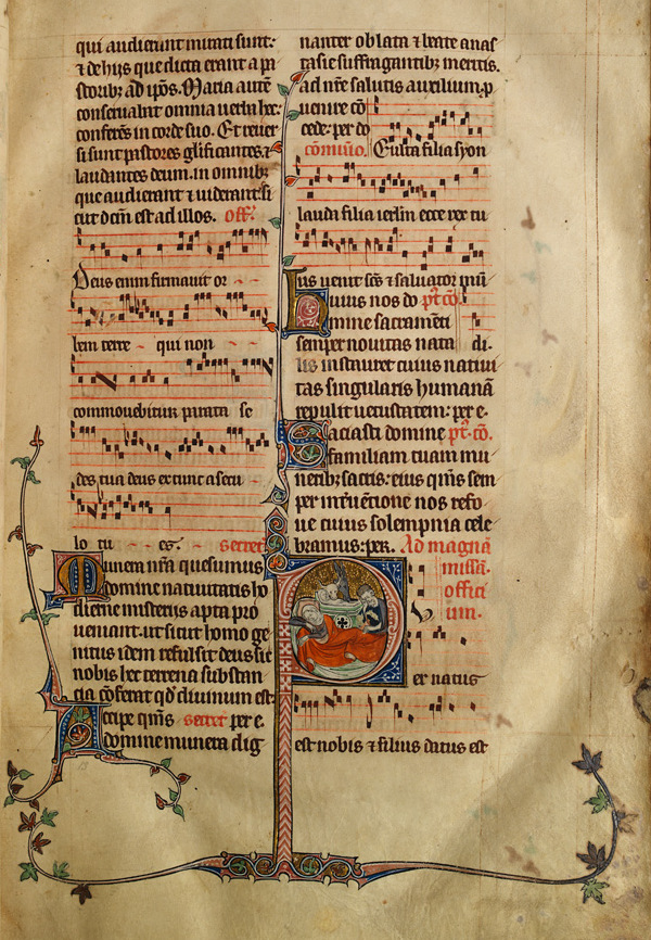 This beautiful Missal made from parchment originates from East Anglia. It is considered a very important manuscript as it is one of the earliest examples of a Missal of an English source. Sarum Missals were books produced by the Church during the Middle Ages for celebrating Mass throughout the year